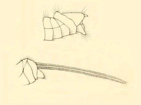 An illustration from British Entomology by John Curtis. name Raphidioptera: Raphidia ophiopsis (Spotted Snake-fly Long-neck) Phaeostigma notata Fabr.